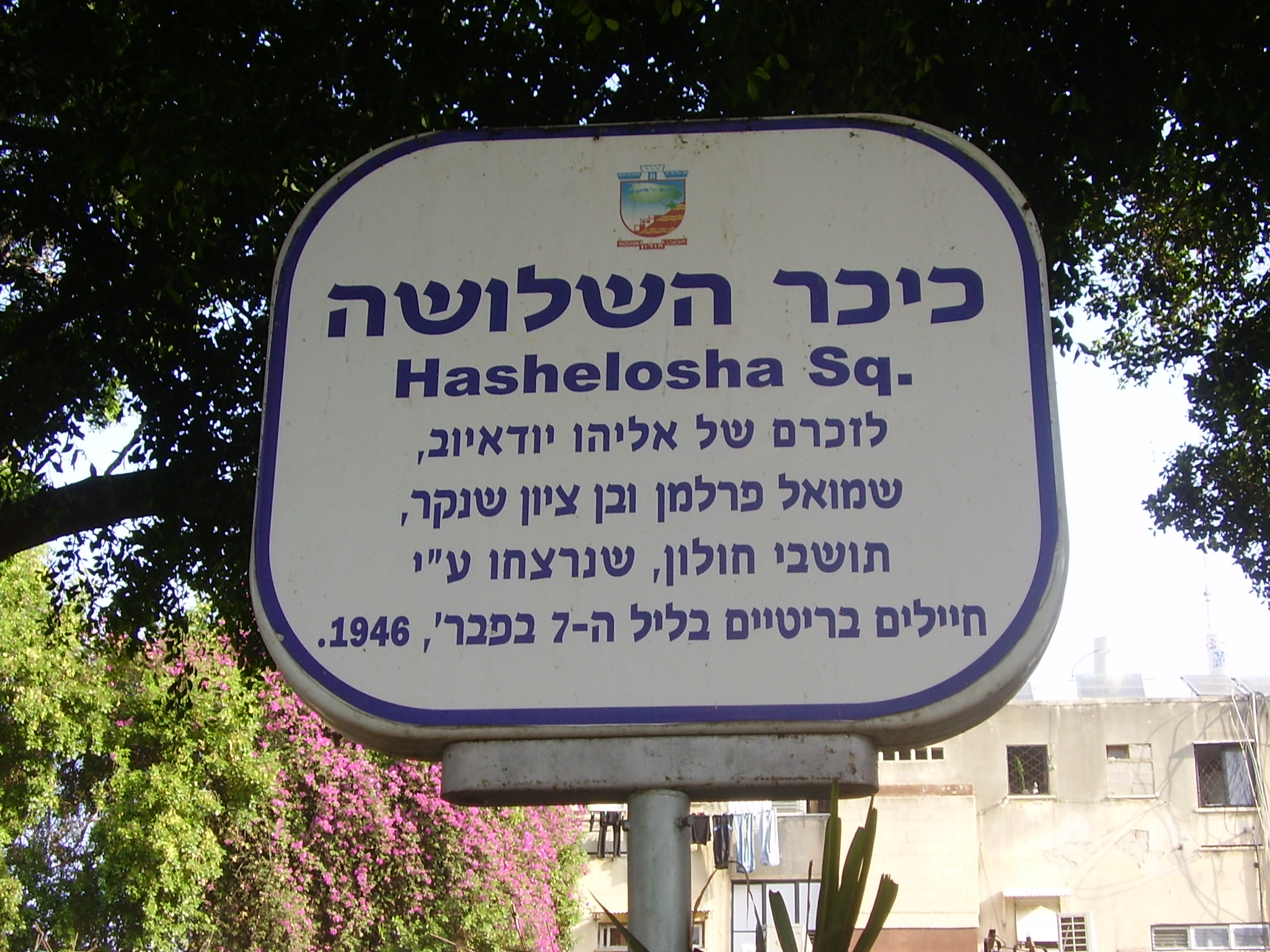 hashelosha square in holon in memory of three jewish civilians killed by brirish soldiers in 7/2/1946